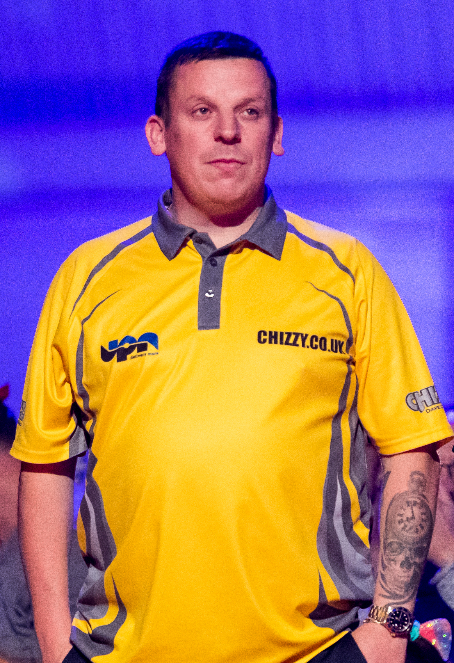 Rob Cross 5:6 Dave Chisnall during PDC Europe Darts Matchplay at Maimarkthalle, Mannheim, Baden-Württemberg, Germany on 2019-09-08, Photo: Sven Mandel